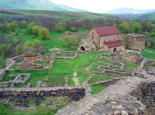 Ruins of the castle and Medieval Church in the vllage of Dmanisi in the Kvemo Kartli region of Georgia